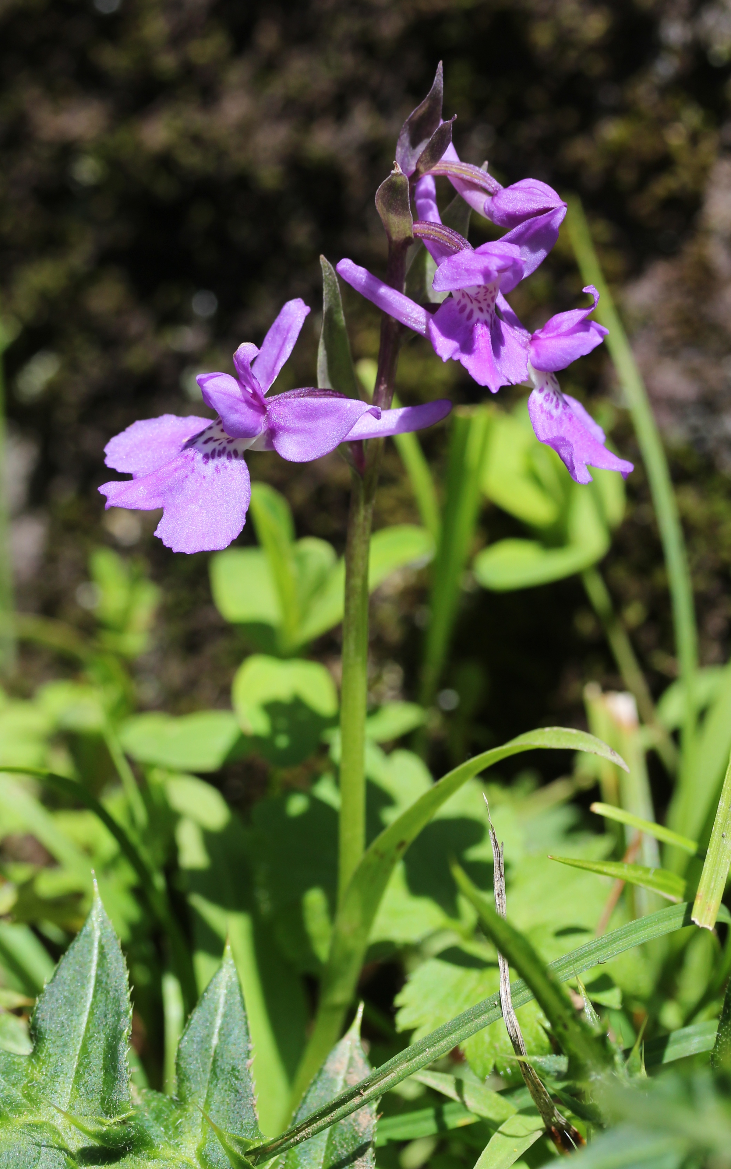 Ponerorchis joo-iokiana in Mount Hijiri, Iida, Nagano prefecture, Japan.